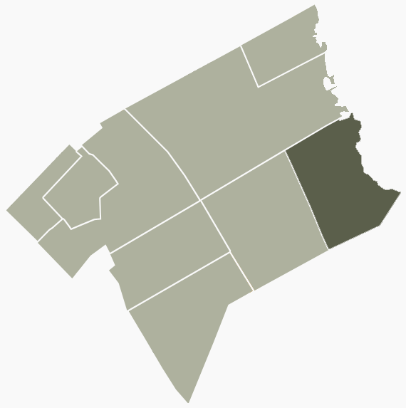 Map of the Vicente López's neighborhood, Vicente López.